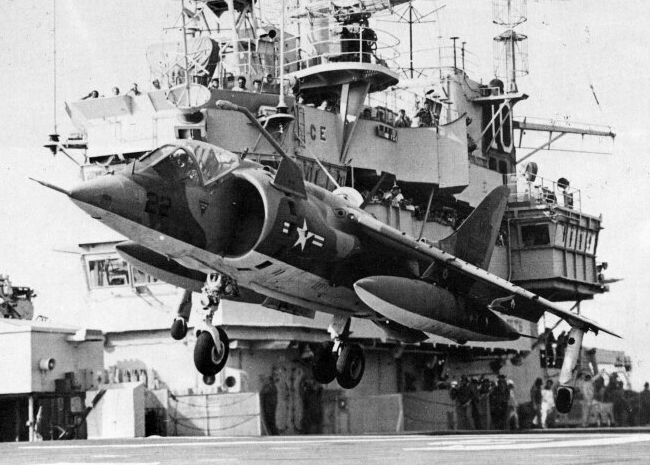 A U.S. Marine Corps Hawker Siddeley AV-8A Harrier from Marine Attack Squadron 513 (VMA-513) Flying Nightmares takes off from the U.S. Navy helicopter carrier USS Tripoli (LPH-10), in 1974. Note the in-flight refueling probe and the unusual large drop tanks.